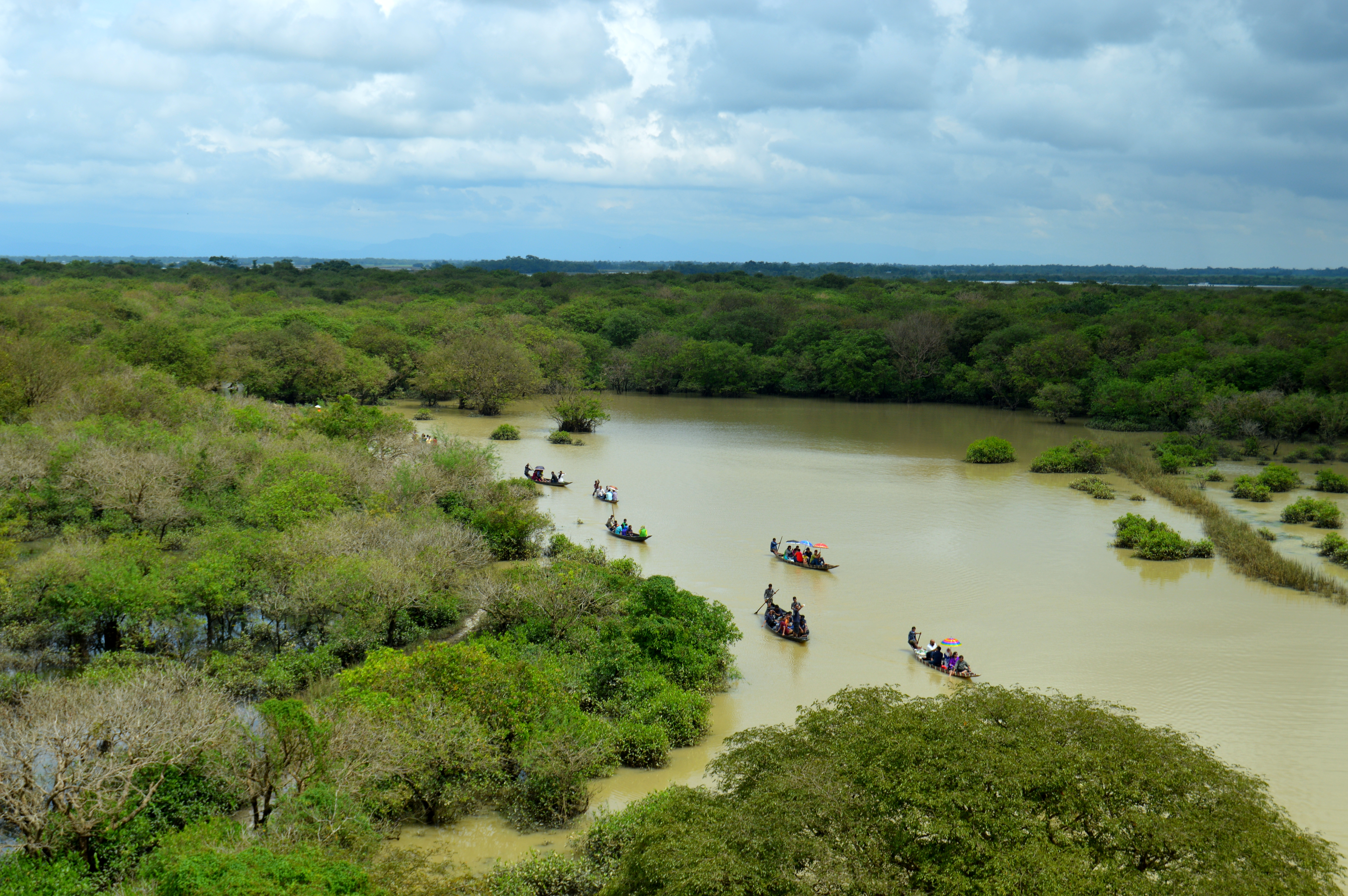 Ratargul Swamp Forest